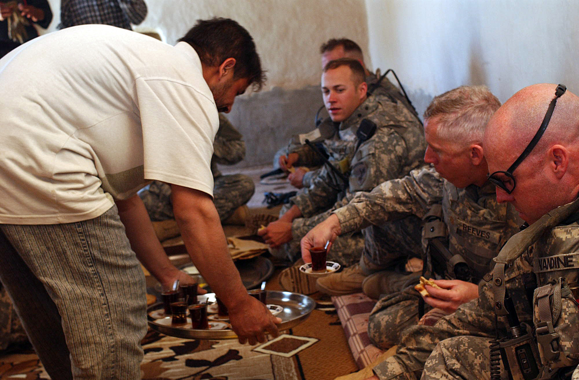 The village Muktar and his family share chai tea and refreshments with U.S. Soldiers in the Al Jazirah Desert village of Khuwaytalah, about 30 kilometers west of Mosul, April 25. Soldiers with 2nd Battalion, 7th Cavalry Regiment, 4th Brigade Combat Team, 1st Cavalry Division, out of Fort Bliss, Texas, traveled to several villages in the desert region to find out about living conditions and the status of school supplies in the area.